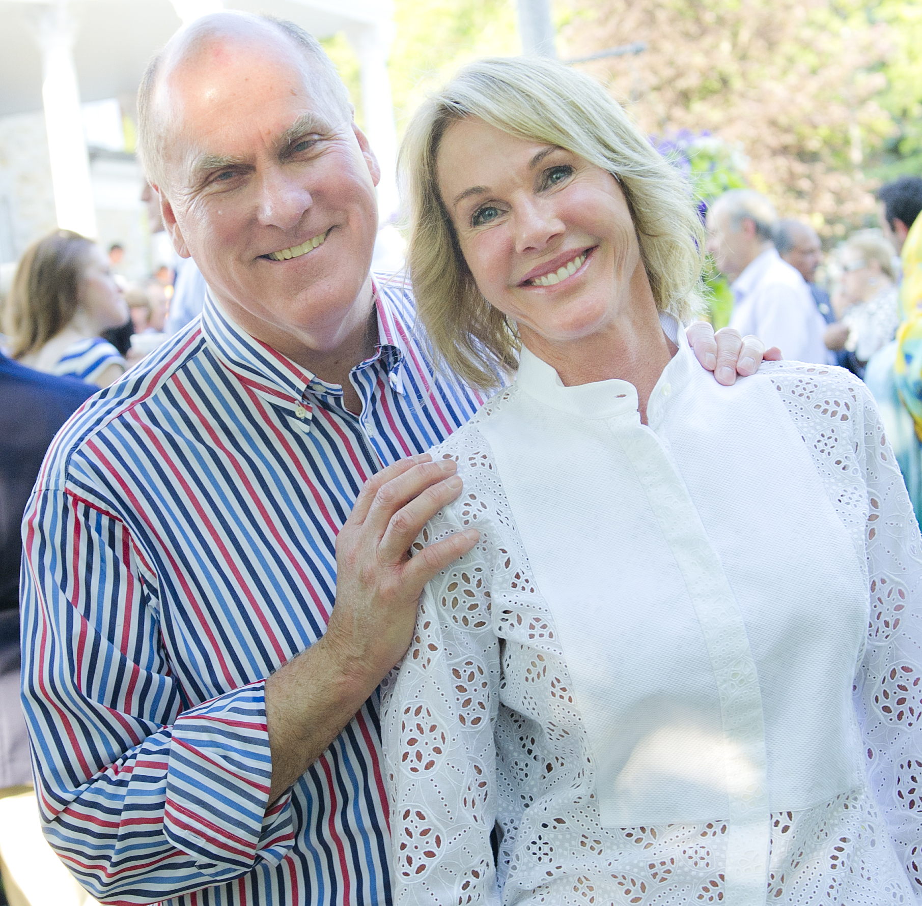 U.S. Ambassador Kelly Craft host her first 4th of July Independence Day Celebration at Lornado, her official residence located in Rockcliffe Park. Photo by Ashley Fraser